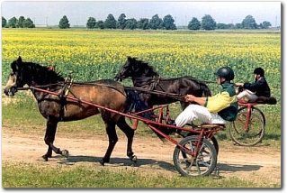 Author: Vytautas Ribikauskas, Lithuania Subj.: Zemaitukai - Lithuanian native horse breed Place: Seduva, Lithuania URL